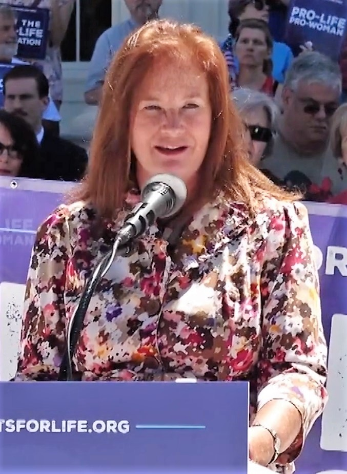 Rep Terri Collins Celebrates the AL Human Life Protection Act Students for Life Rally - Montgomery, AL 5.22.19